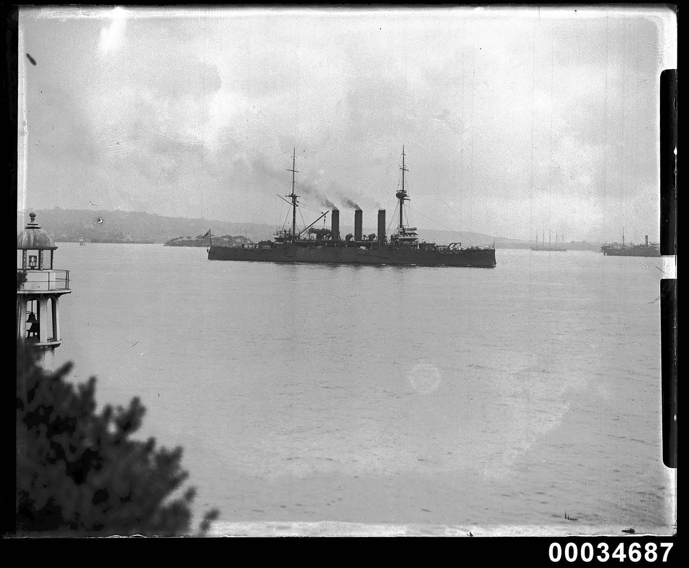 Members of the Imperial Japanese Naval Squadron visited Australia in January 1924 as part of a training cruise. The squadron, led by Admiral Makoto Saito, consisted of the IWATE, ASAMA and YAKUMO. Nearly 2,500 men of which 300 were midshipmen spent time in Sydney, Melbourne, Hobart, Brisbane, Adelaide and Perth during their tour. This photo is part of the Australian National Maritime Museum’s Samuel J. Hood Studio collection. Sam Hood (1872-1953) was a Sydney photographer with a passion for ships. His 60-year career spanned the romantic age of sail and two world wars. The photos in the collection were taken mainly in Sydney and Newcastle during the first half of the 20th century. The ANMM undertakes research and accepts public comments that enhance the information we hold about images in our collection. This record has been updated accordingly. Photographer: Samuel J. Hood Studio Collection Object no. 00034687 Check out our blog on naval visits to Sydney bit.ly/MTtR5H